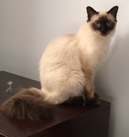 Old-Style Balinese-Seal point cat. Other information By permission from Azureys Cats/Edison A. this picture will be added to the Balinese cat Wikipedia page.